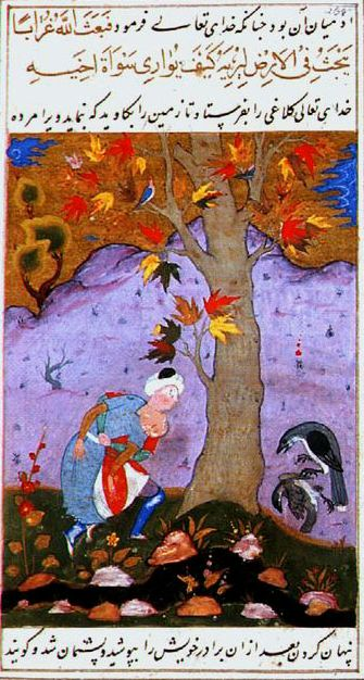 A depiction of Cain burying Abel from an illuminated manuscript version of Stories of the Prophets.